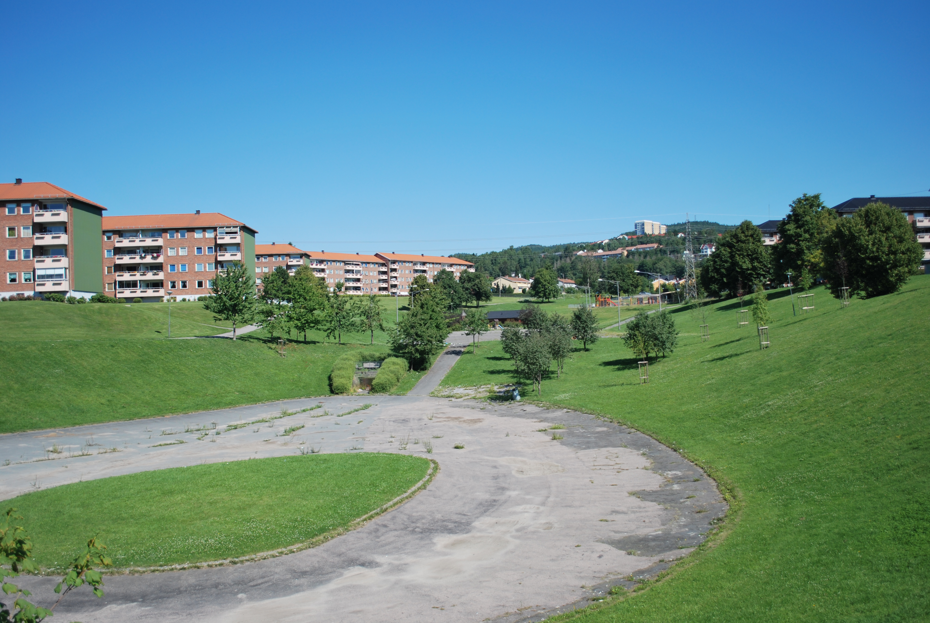 Bjerkedalen park, neighbourhood Risløkka, Oslo